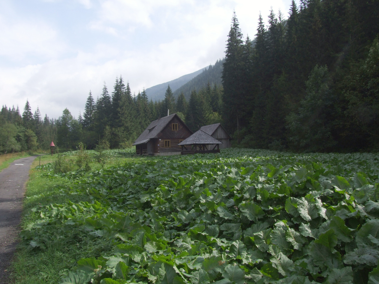 Cicha Dolina Liptowska (West Tatra Mountains)